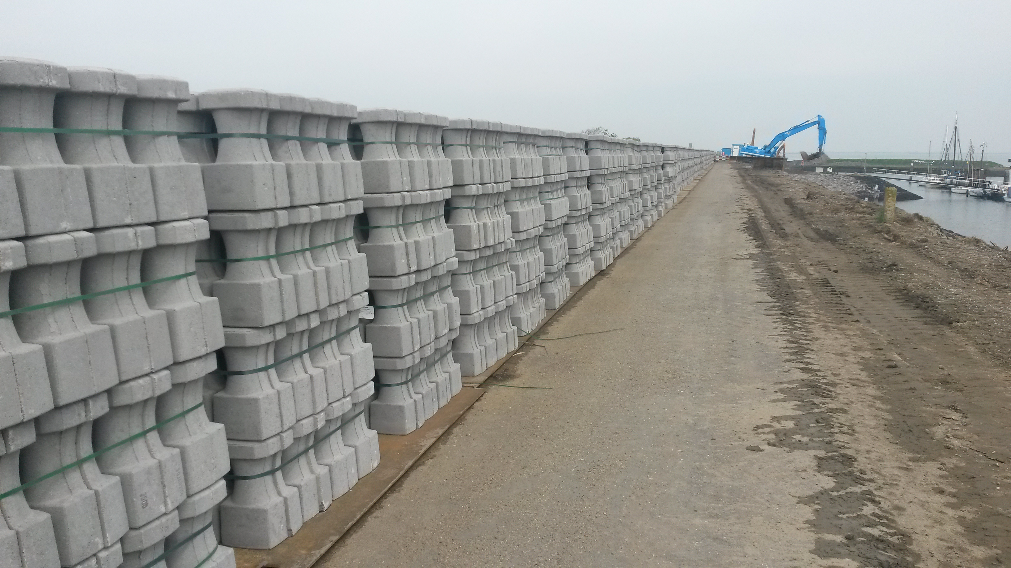 Storage of Hillblock, a revetment block. Clearly visible is the mushroom shape of the block. Notice that each block consist of two halves.